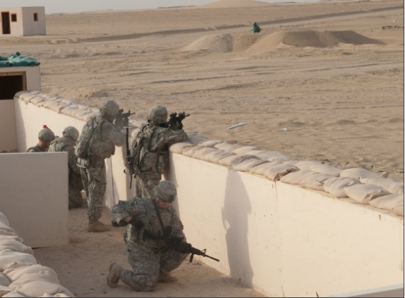 Soldiers of A Company, 4th Battalion, 118th Infantry Regiment engage targets after assaulting and clearing a trench system, one of their objectives during a platoon live-fire exercise at the Udairi Range Complex in northern Kuwait, July 31, 2012. The Soldiers also cleared buildings during the exercise. In addition to undertaking camp and security-force operations, the South Carolina Army National Guard Soldiers have kept up the pace of their training since deploying to Kuwait in April.